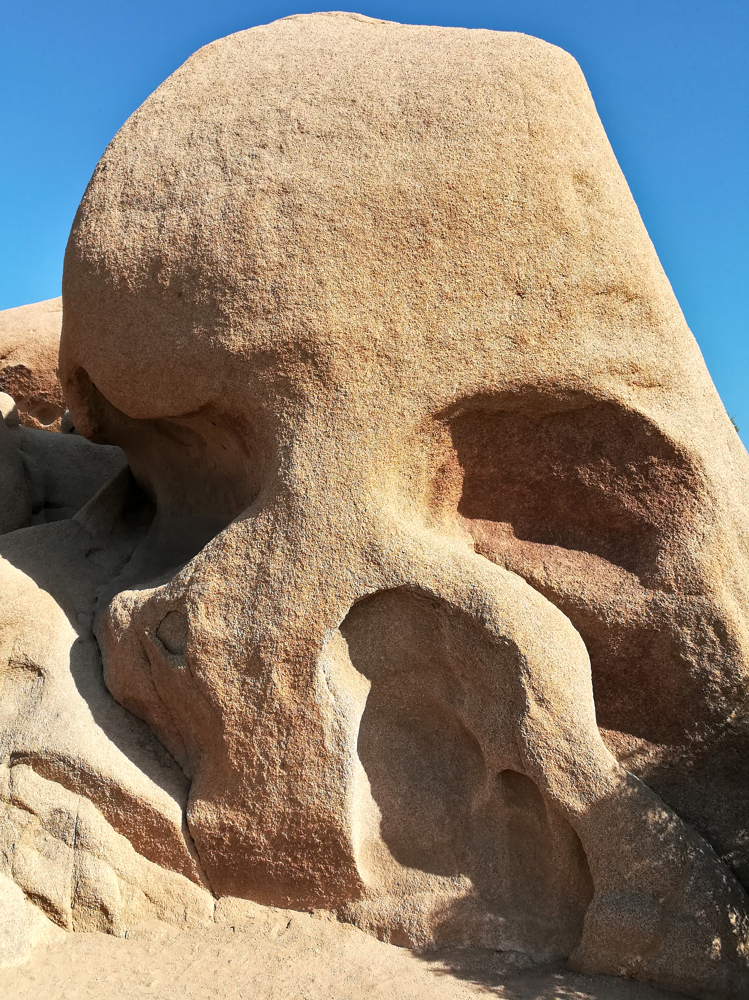 Skull Rock in Joshua Tree Nationalpark